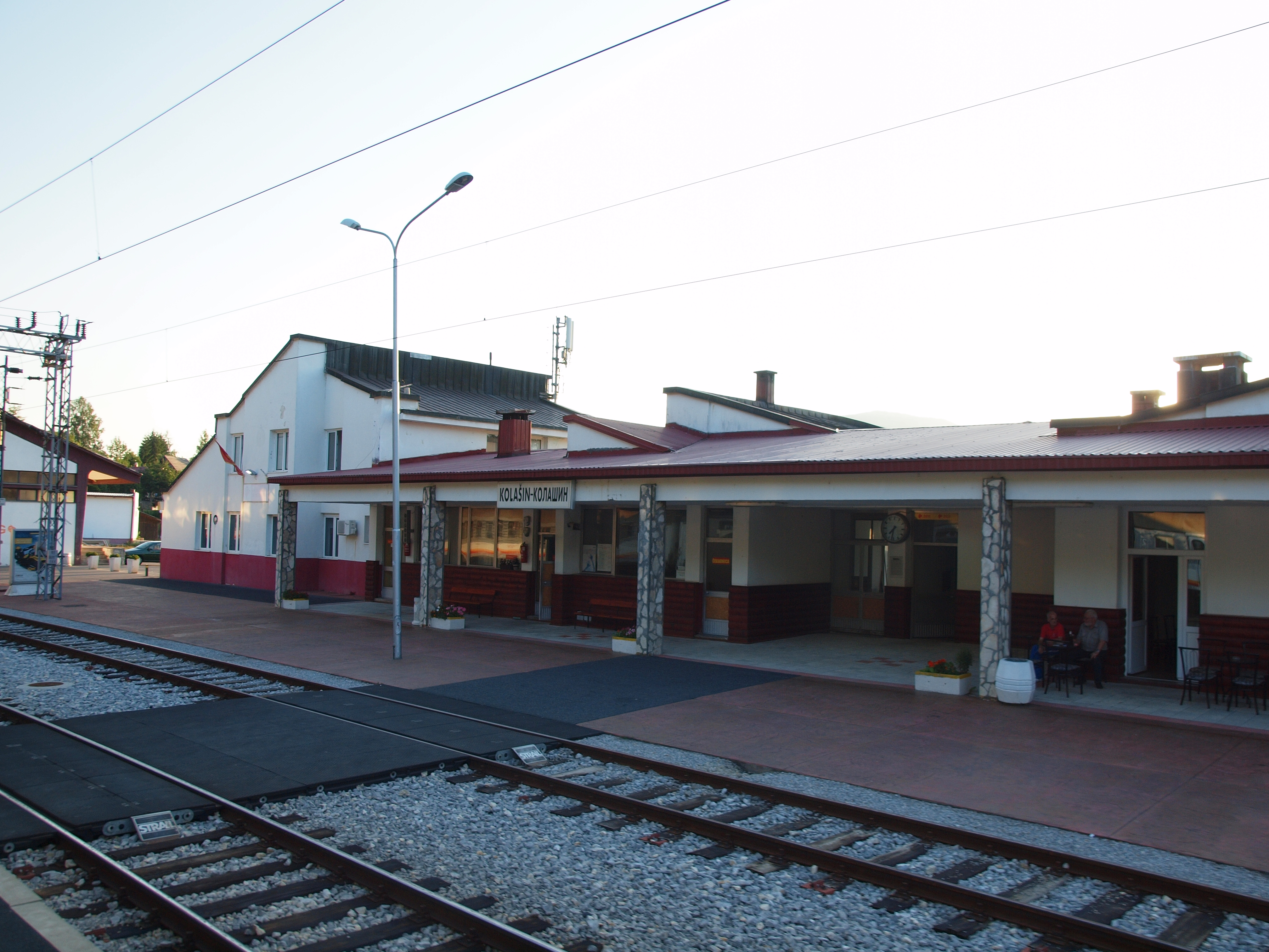 Belgrade-Bar railway